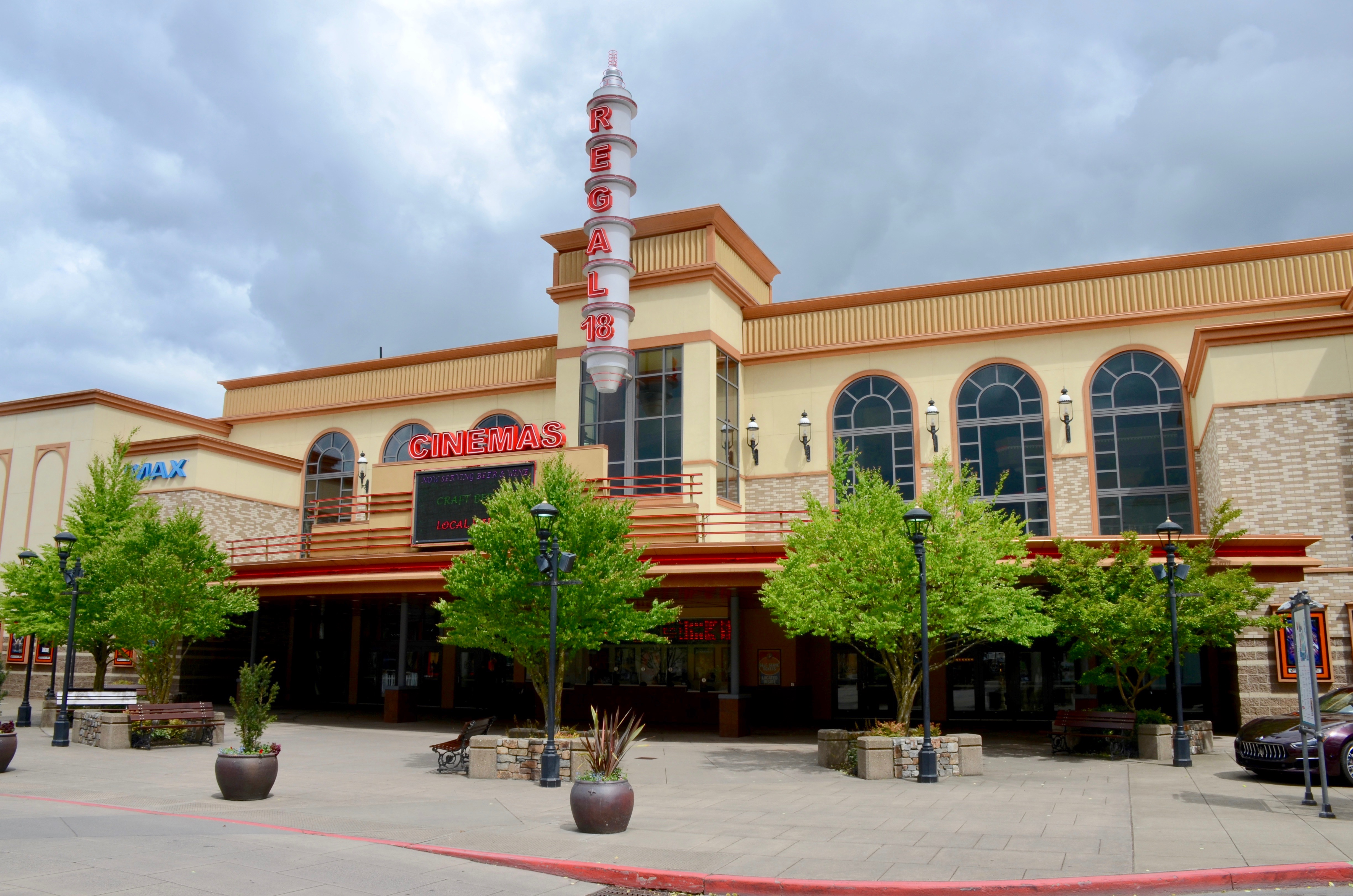 The Regal Cinemas movie theater at Bridgeport Village, a shopping mall that straddles the boundary between the cities of Tualatin and Tigard, Oregon (in the Portland metropolitan area). The boundary runs along the street that the theater faces, and the theater sits on the Tigard side.